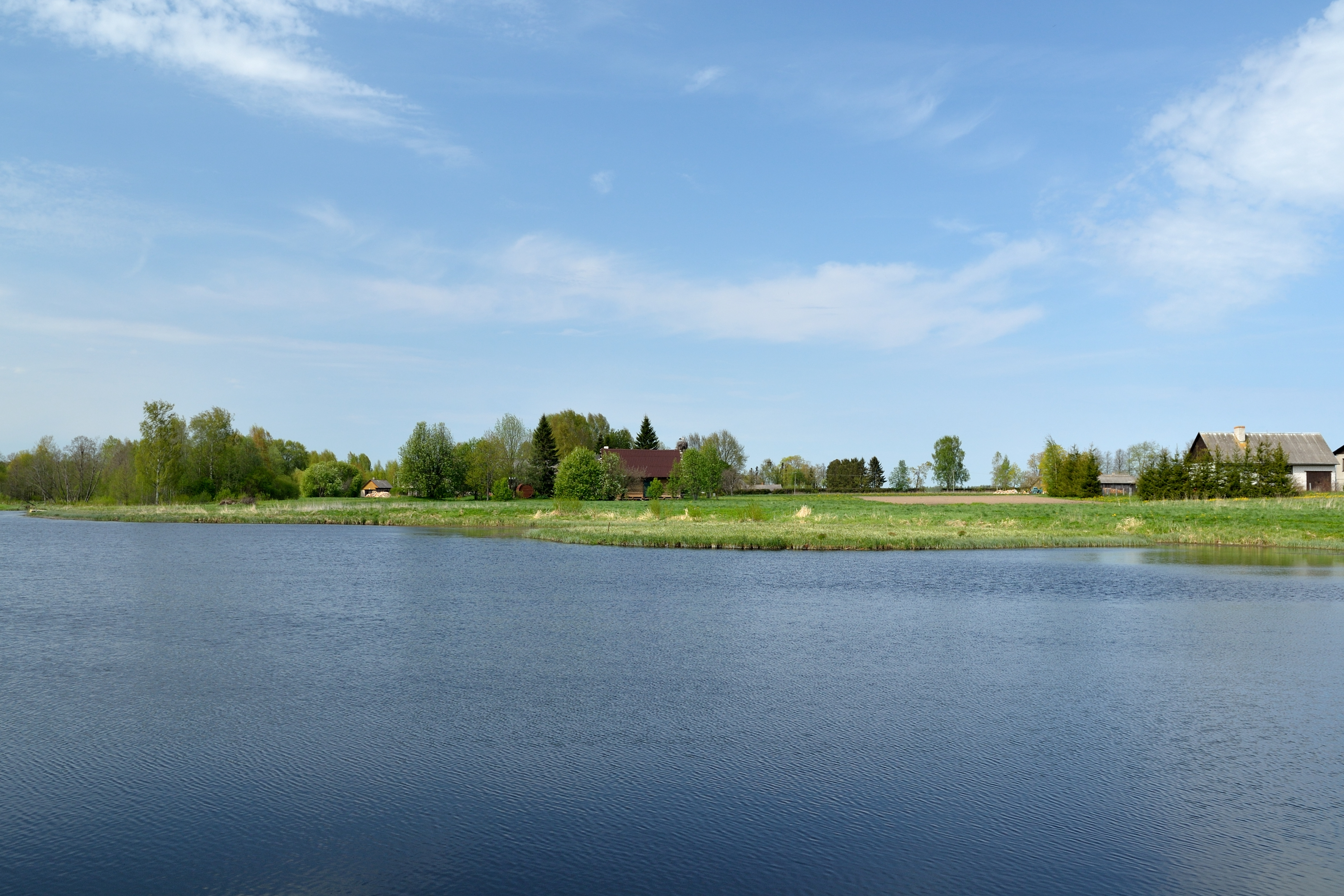 Vaiatu impounded lake (Kullavere river)